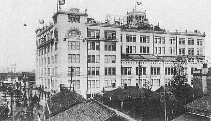 Matsuzakaya Department Store Nagoya Branch circa 1925